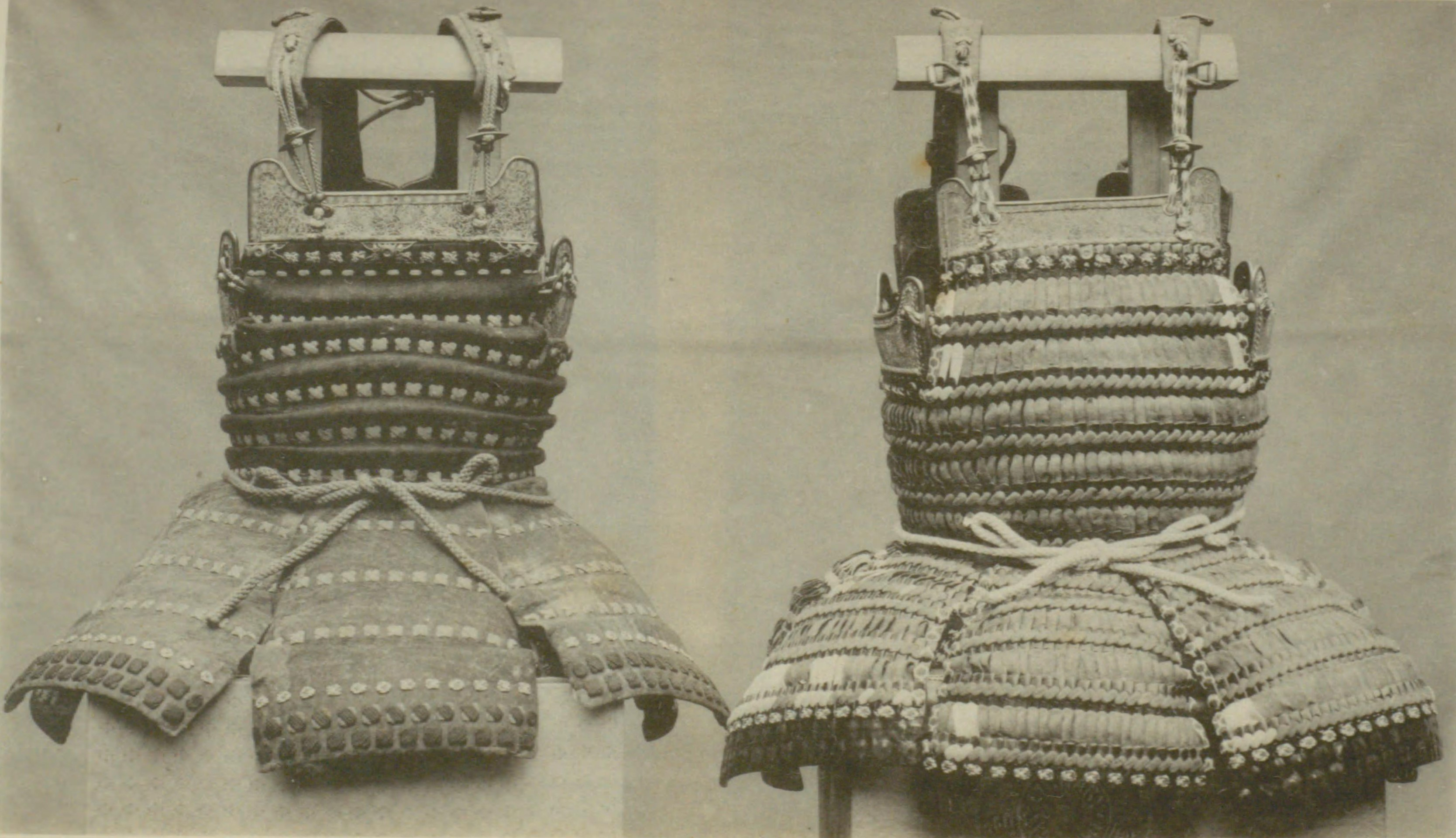 Two haramaki armour made in Nambokucho-Muromachi period at Kongoji, Kawachinagano, Osaka prefecture. Important Cultural Property of Japan.